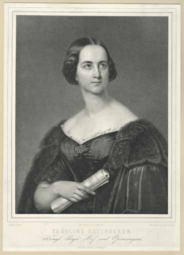 The german operasinger Karoline Hetzenecker von Mangstl (1822-1888)